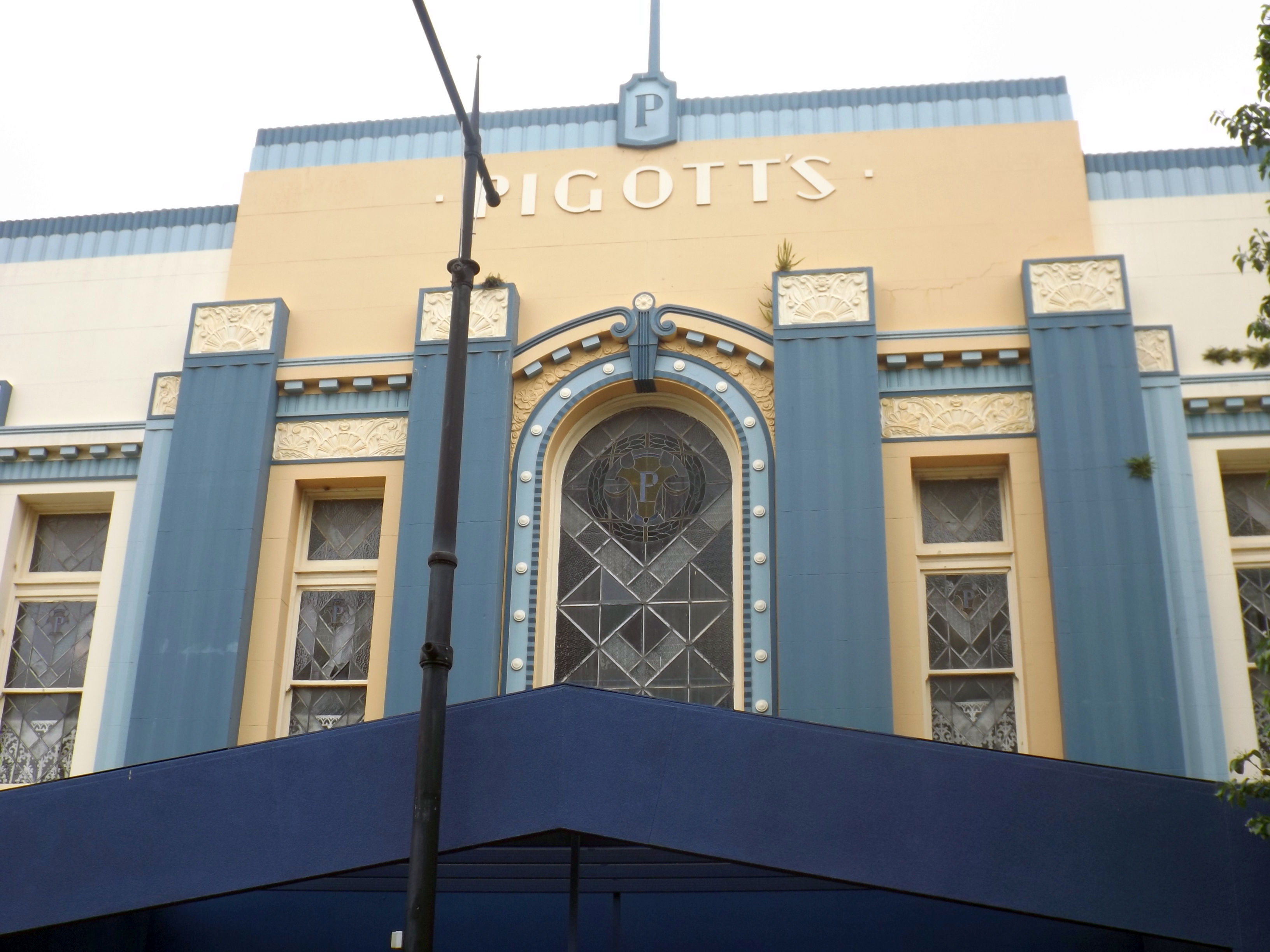 Photo of Pigott's Building facade in Toowoomba City, Queensland, Australia.